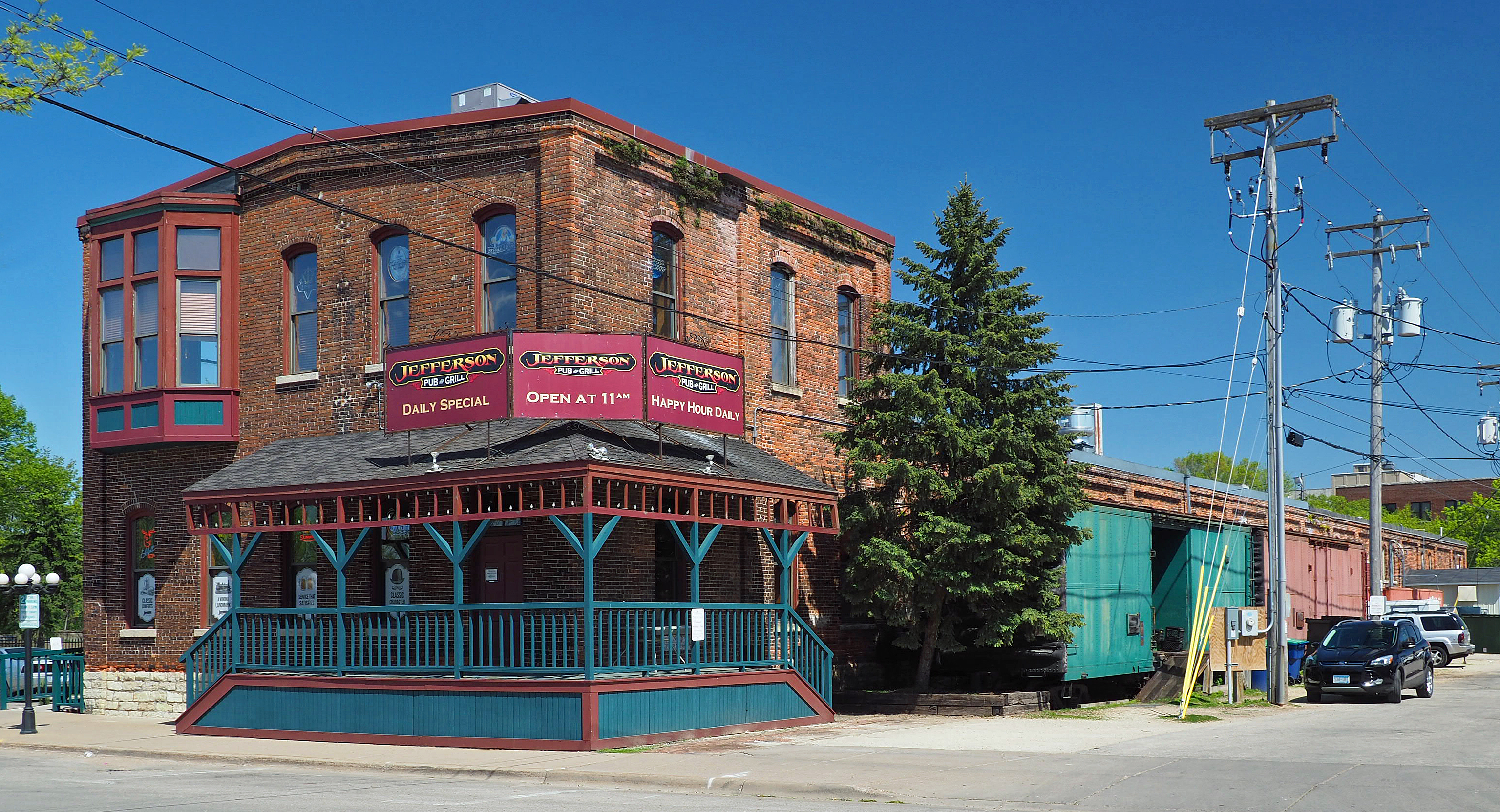 Winona & St Peter Railroad Freight House (now the Jefferson Pub & Grill), 58 Center St, Winona, Minnesota, USA. Viewed from the west.